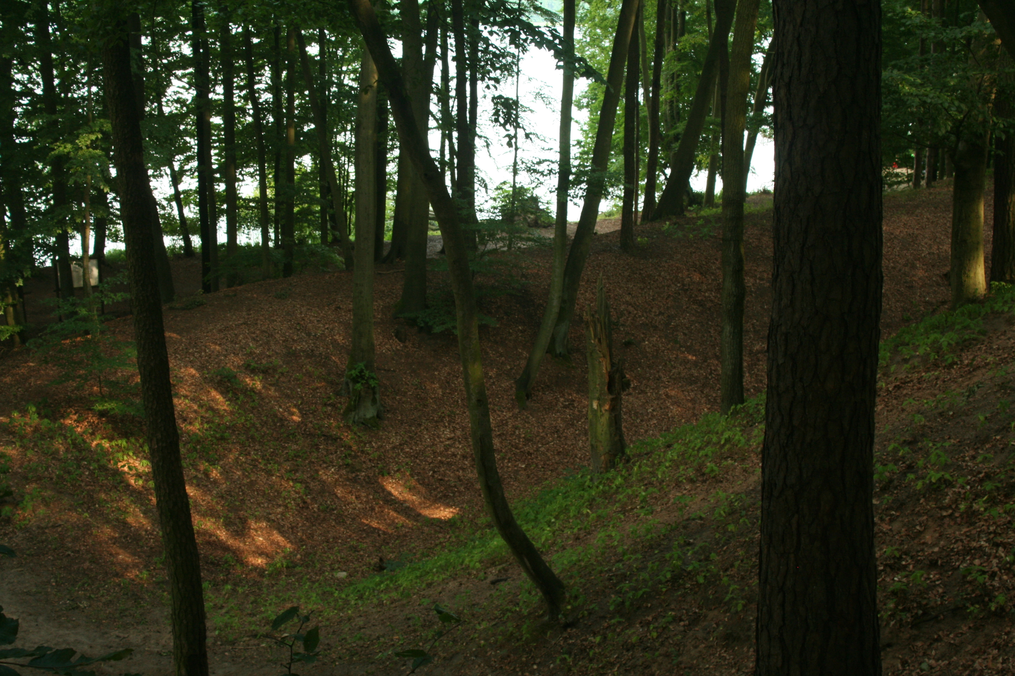 Defensive earthen wall of Niesulice gord, at Lake Niesłysz, Lubuskie Voivodship